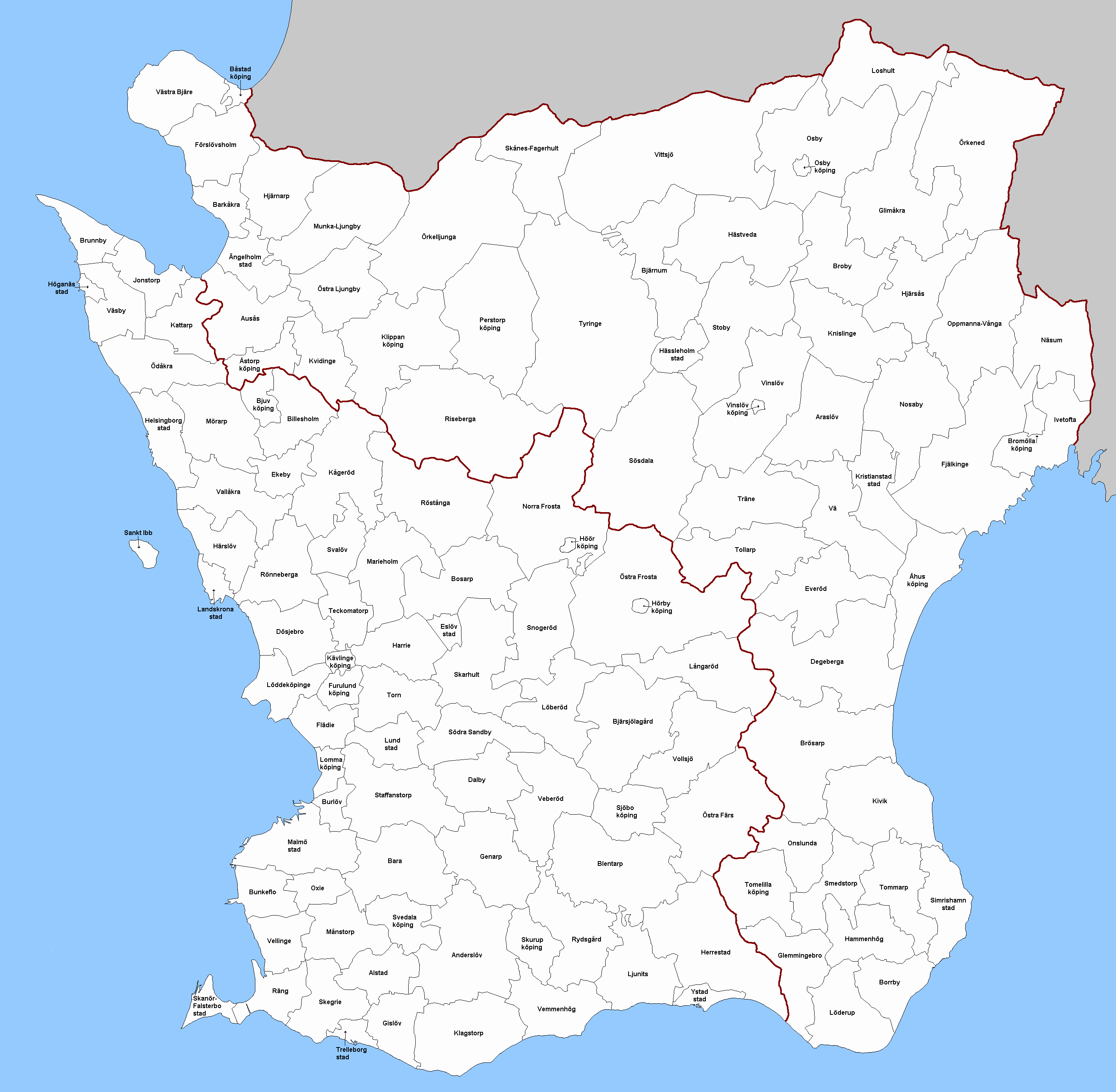 old municipalitites in skåne (1952).